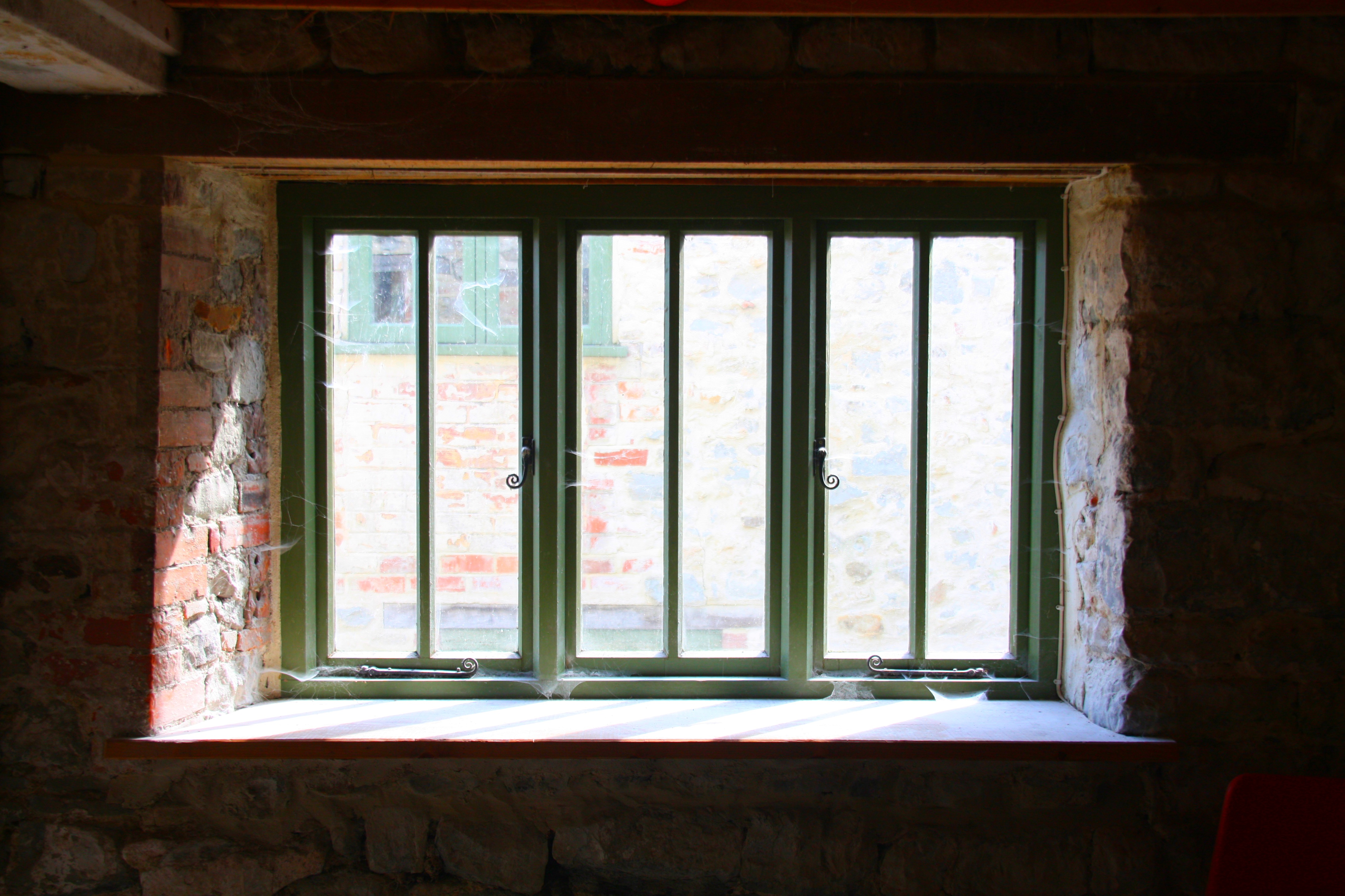 A timber-framed casement window in the water mill at Lyme Regis, Dorset, England